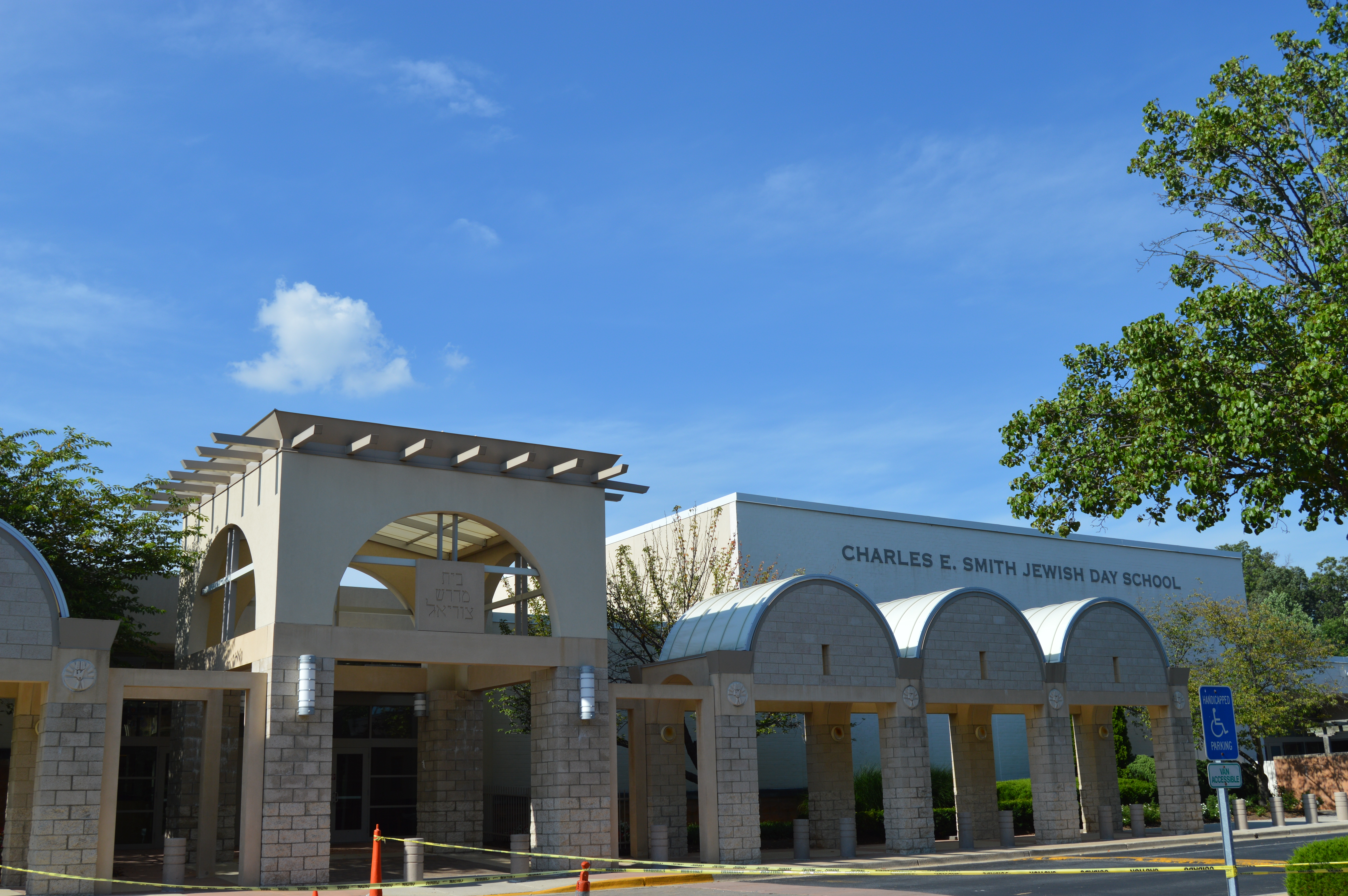 Image of Charles E. Smith Jewish Day School in Rockville, Maryland